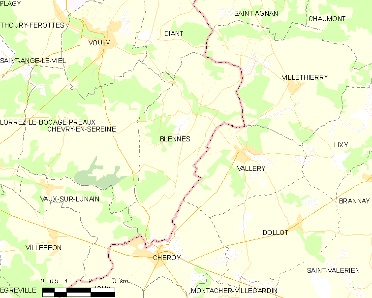 Map of French municipality Blennes